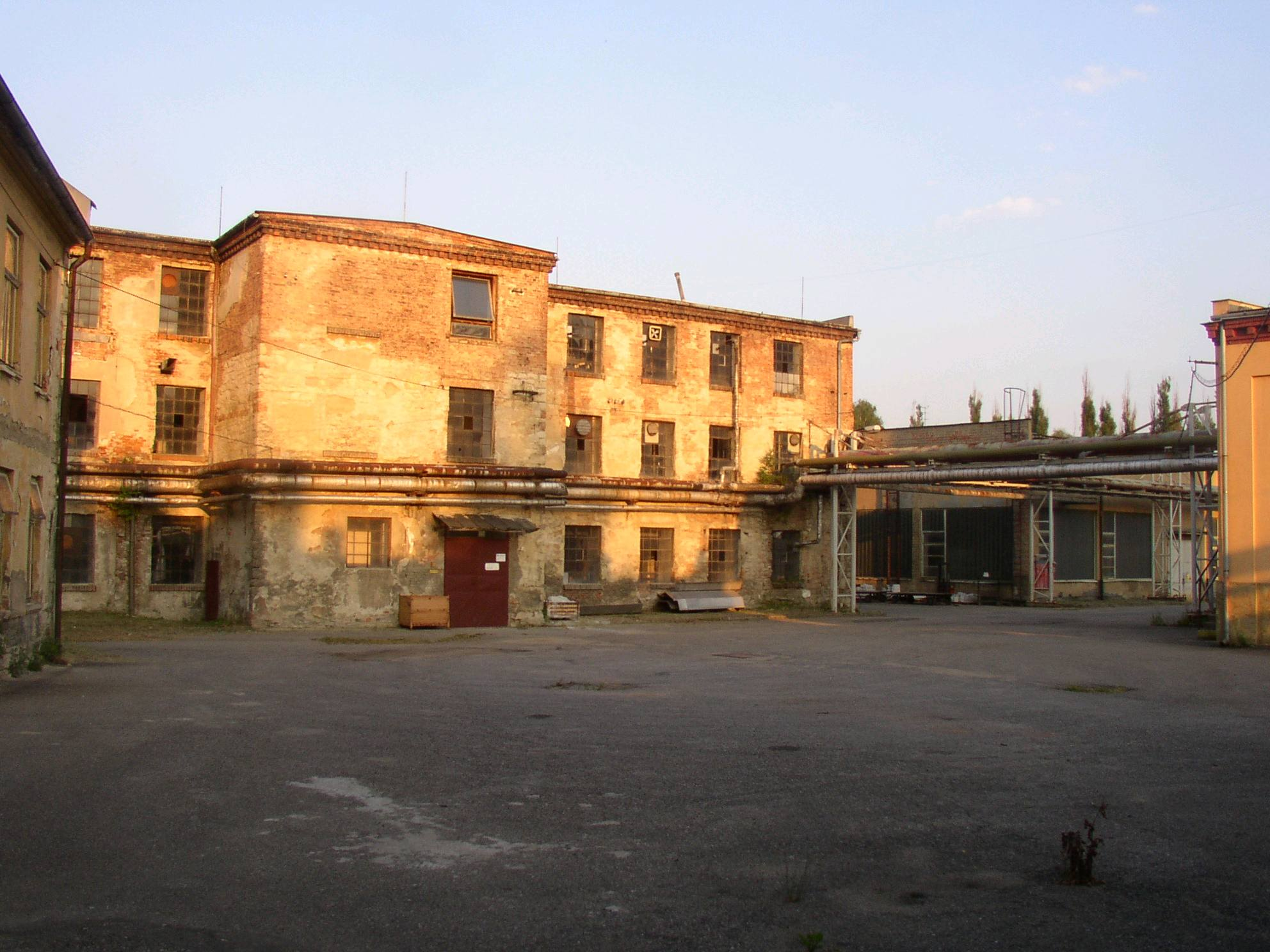 Oskar Schindler's factory at Brněnec (15 km south of Svitavy), Czech Republic as seen in summer 2004